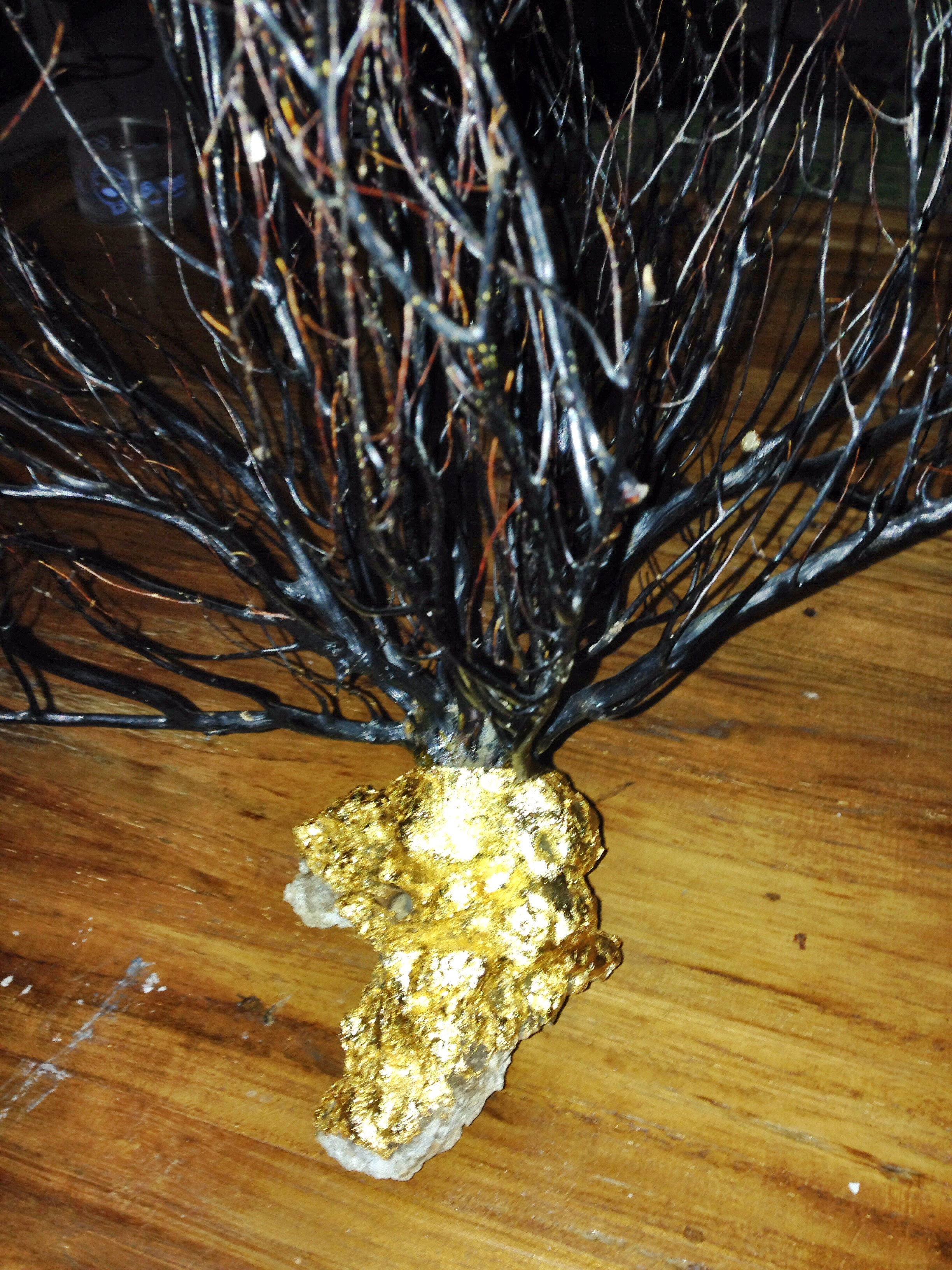 black coral,深海黑珊瑚